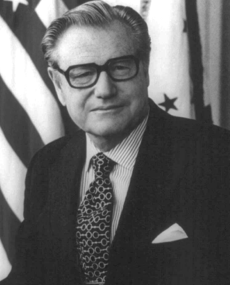 Nelson A. Rockefeller.